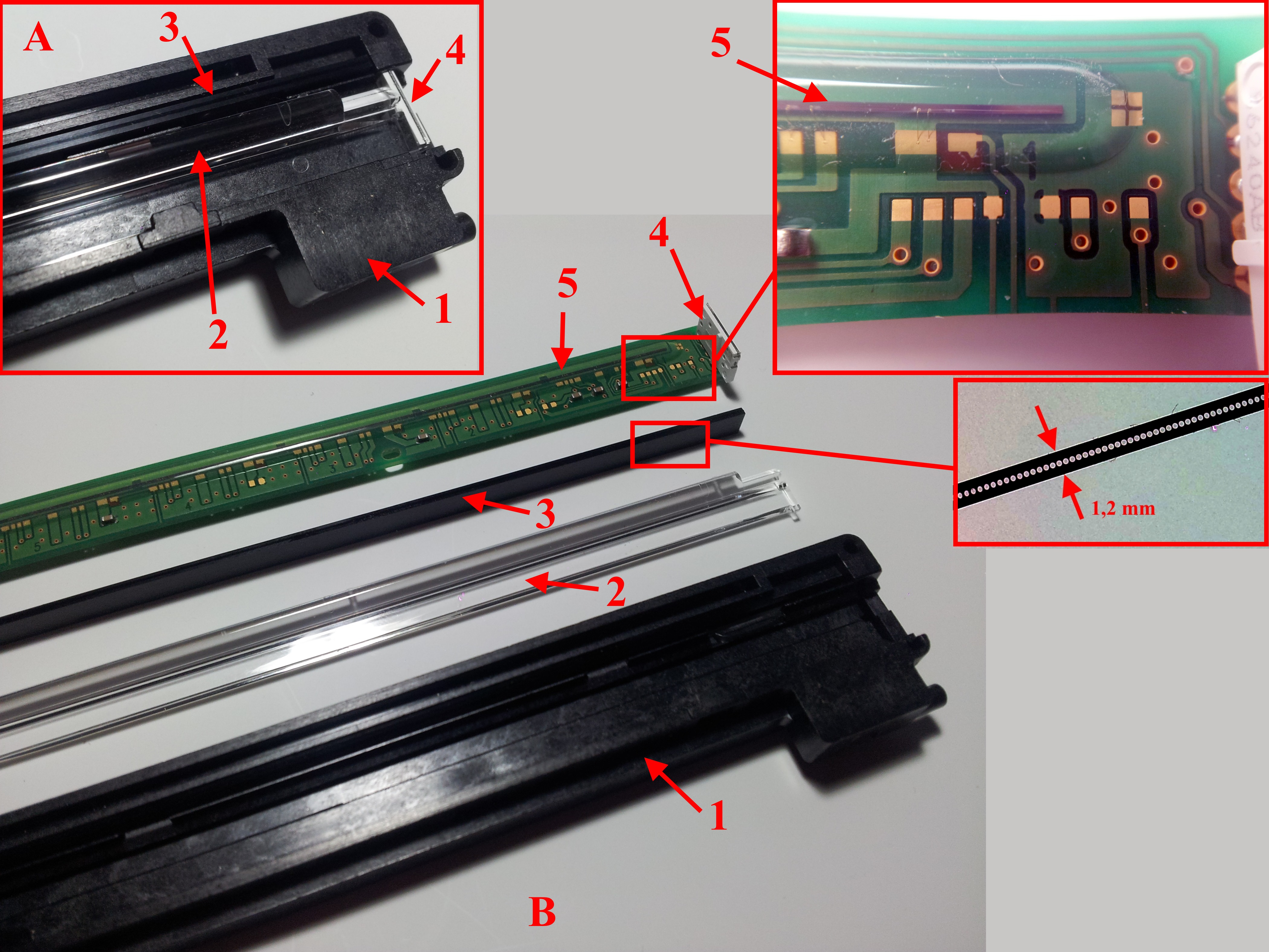 Overview of a scanner unit with Contact Image Sensor. A: assembled B: disassembled 1: housing 2: light conductor 3: lenses 4: chip with two RGB-LEDs 5: Contact Image Sensor (CIS) This part(s) belong to a Canon MP500 multifunction printer.